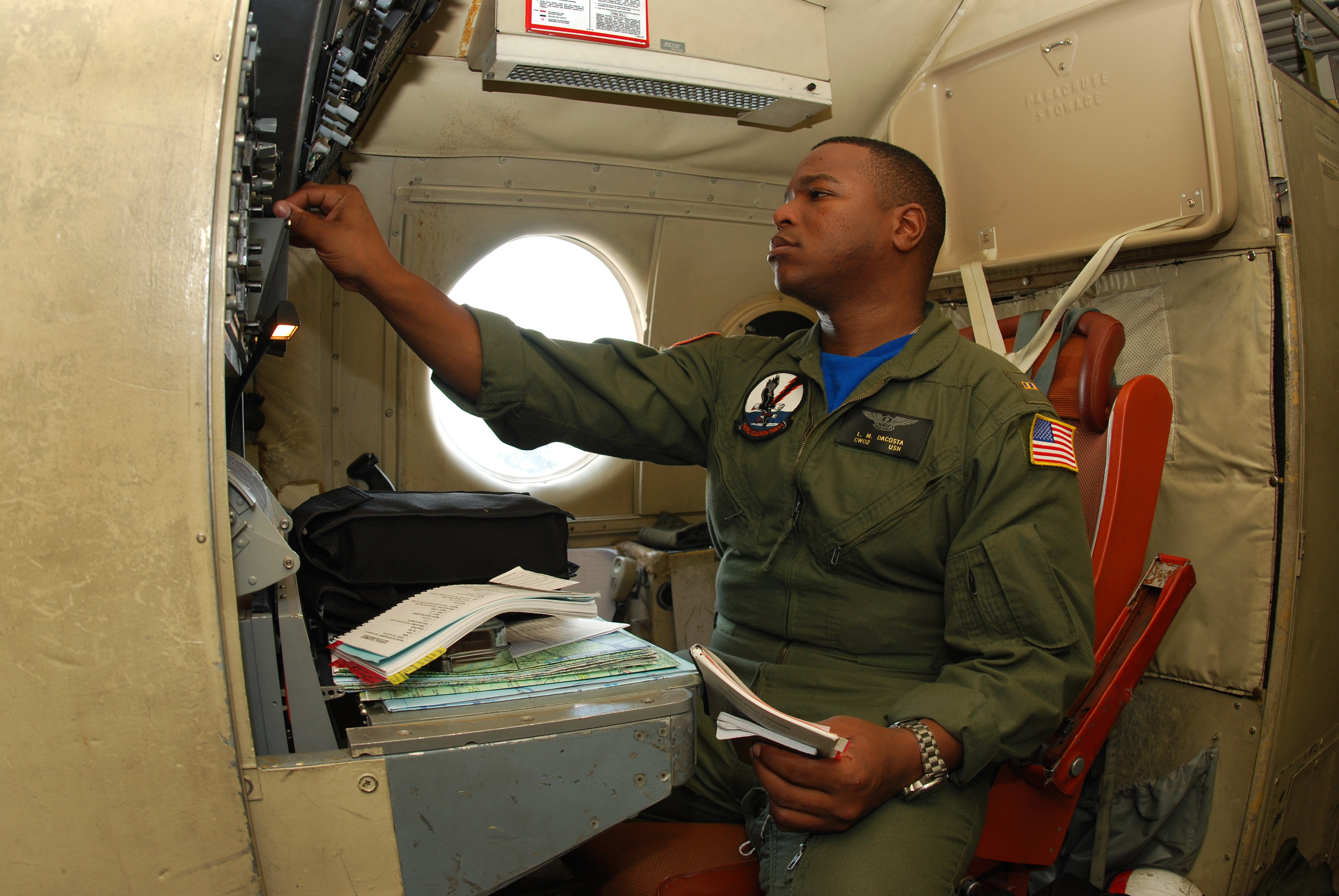 MAYPORT, Fla. (Sept. 10, 2009) Chief Warrant Officer Leighton DaCosta performs pre-flight set-up on a P-3 Orion during the platform-specific phase of his Chief Warrant Officer Flight Training program at Patrol Squadron (VP) 30, at Naval Air Station Jacksonville, Fla. DaCosta was one of ten Naval Flight Officers chosen for the program in 2009. (U.S. Navy photo by Mass Communication Specialist 1st Class Monica Nelson/Released)